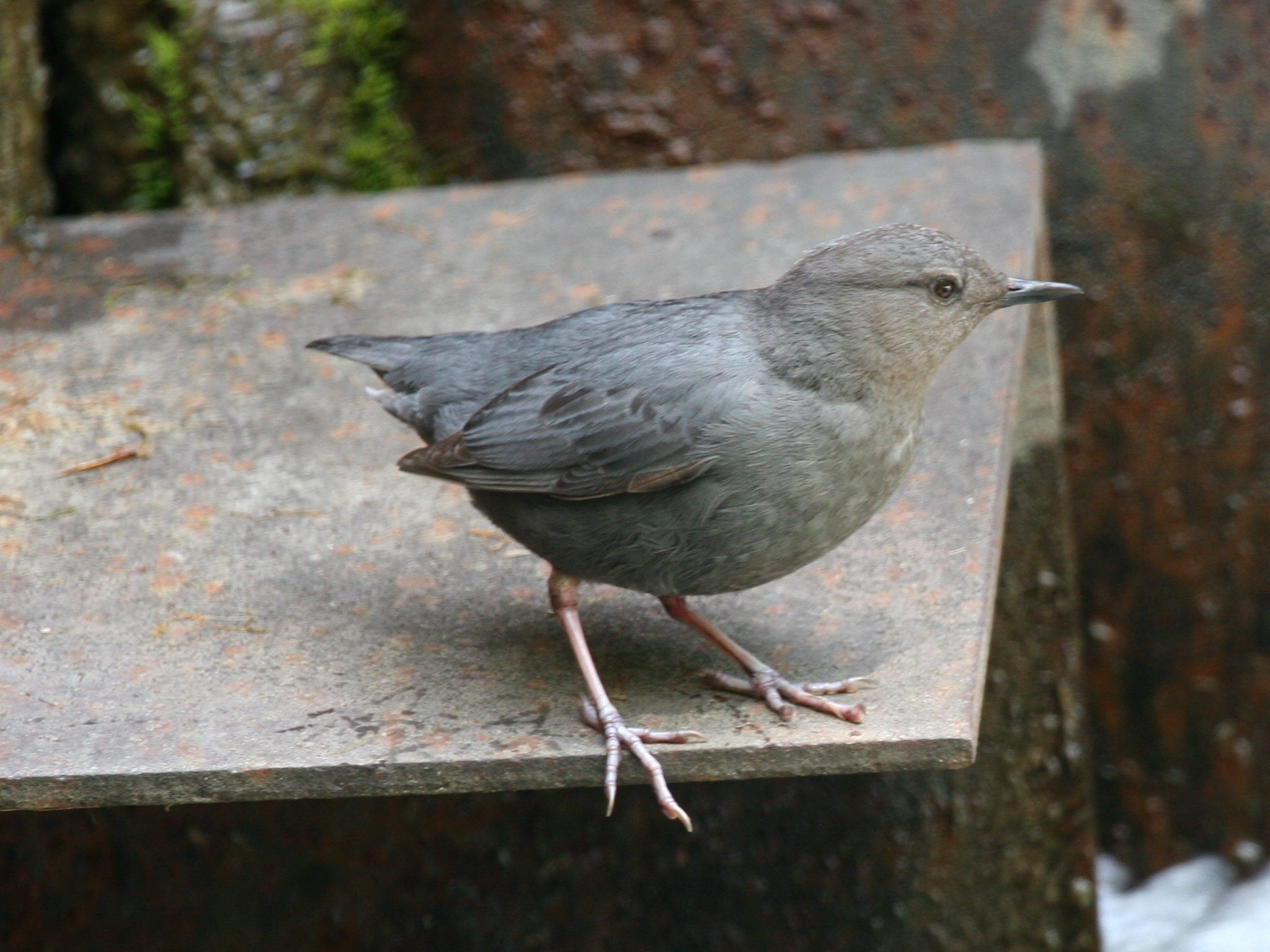 American Dipper (Cinclus mexicanus)